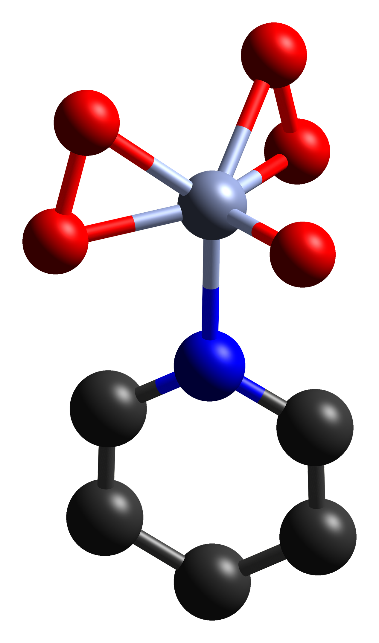 Ball-and-stick model of a complex of chromium peroxide (CrO5) with pyridine (Py), PyCrO5. Colour code: Chromium, Cr: blue-grey Oxygen, O: red Carbon, C: grey-black Hydrogen, H: white Nitrogen, N: blue Crystal structure from R. Stomberg, Ark. Kemi (1964) 22, 29– Image generated in CrystalMaker 8.2.